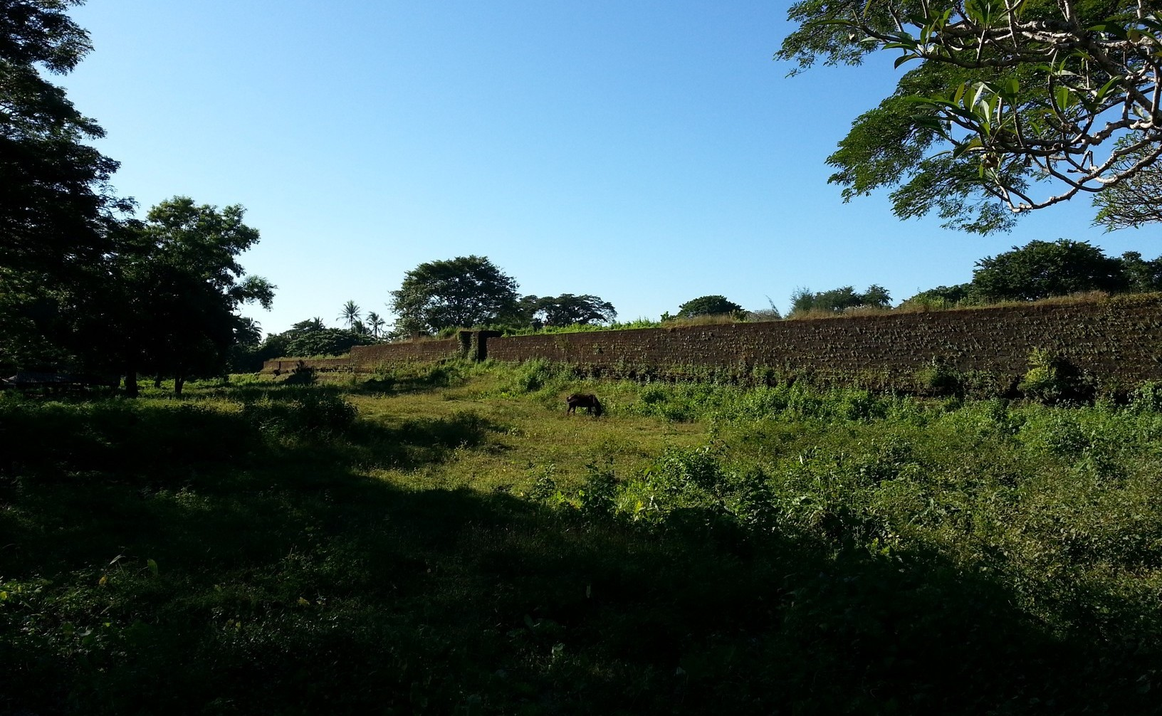 Mrauk U, Rakhine State, Myanmar